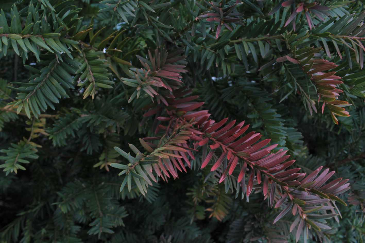 Vandalism